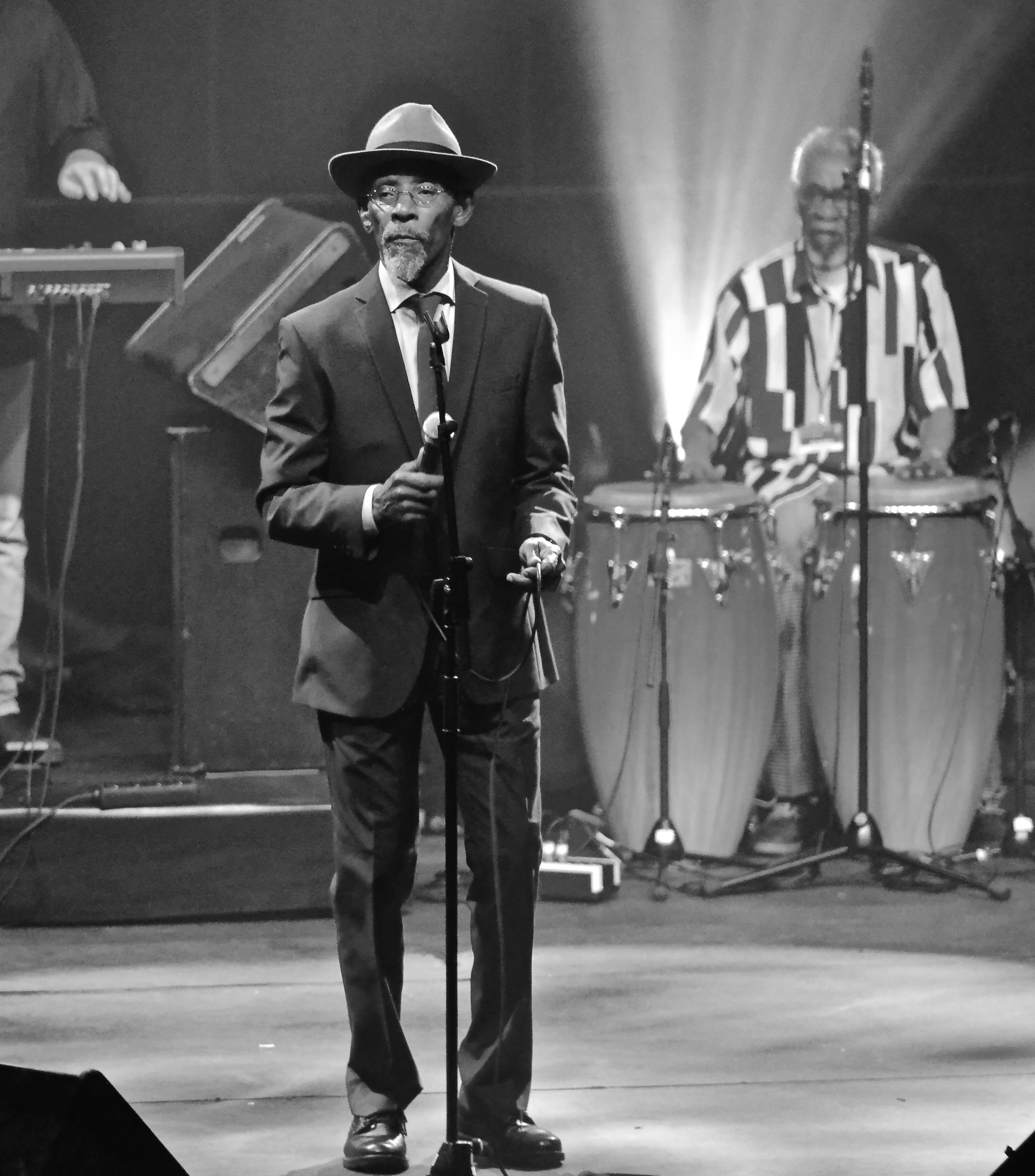 Linton Kwesi Johnson in concert in Brussels October 28 2017